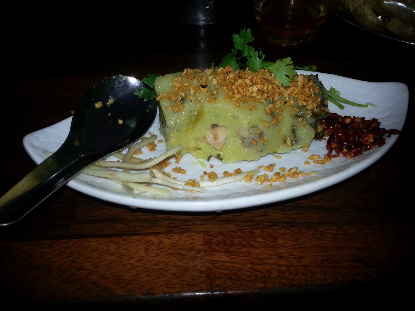 Shan Traditional Sticky Rice with Meat